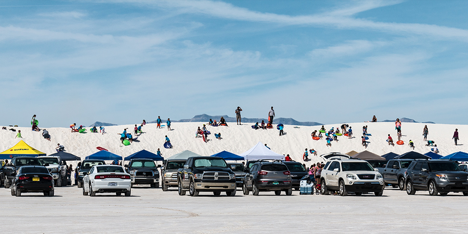 Visitors sledding and picnicking at White Sands National Park, New Mexico, United States